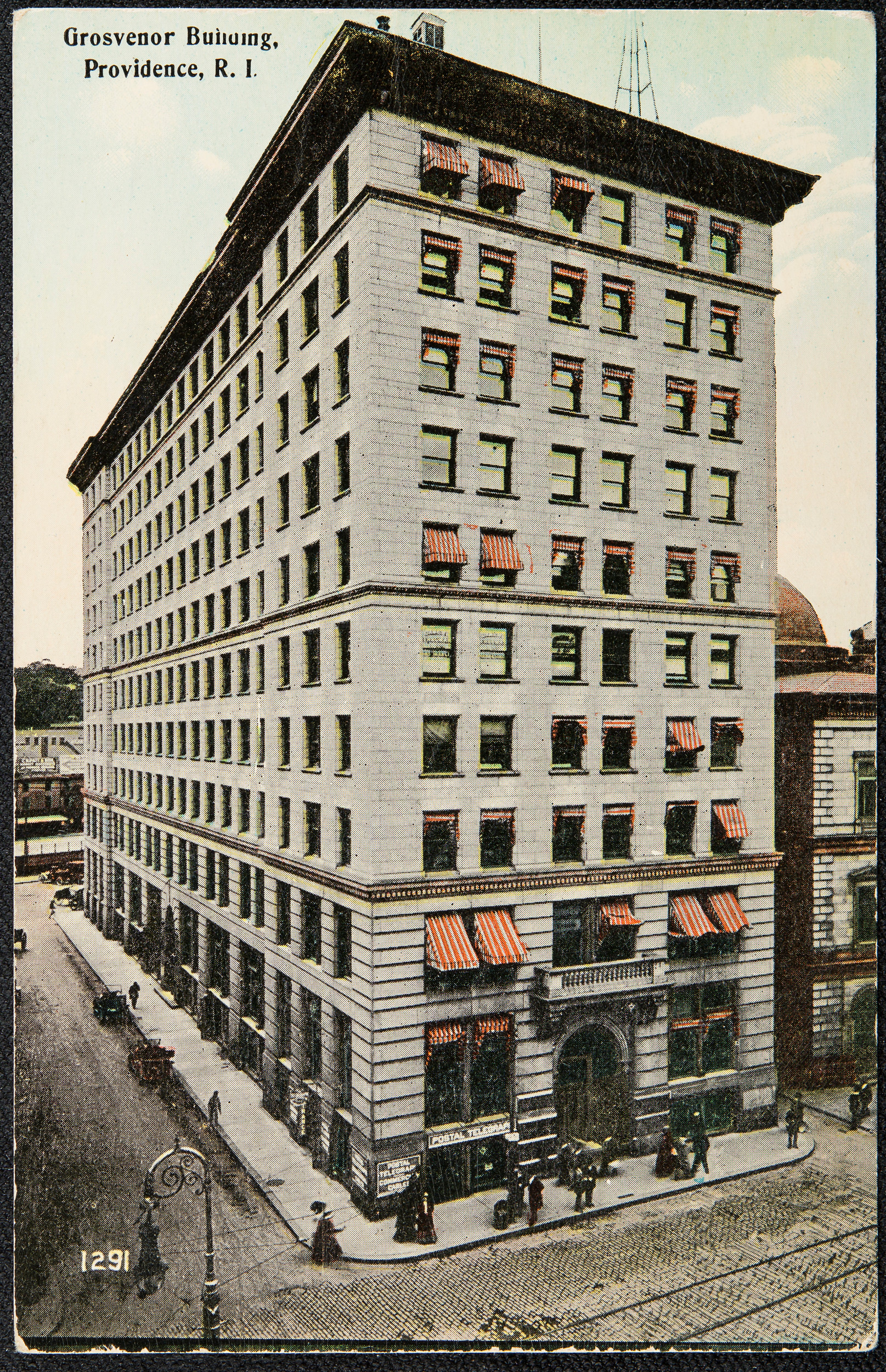 Postcard of the Banigan building Providence Rhode Island. Rhode Island's first skyscraper.